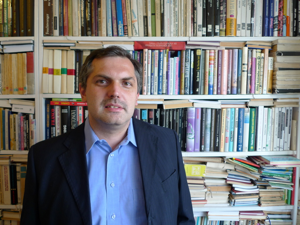 Roman Michelko - a portrait in front of his library